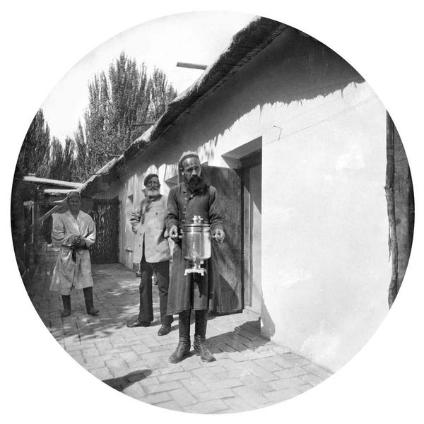 Чайхона Чиназ 1890 г.